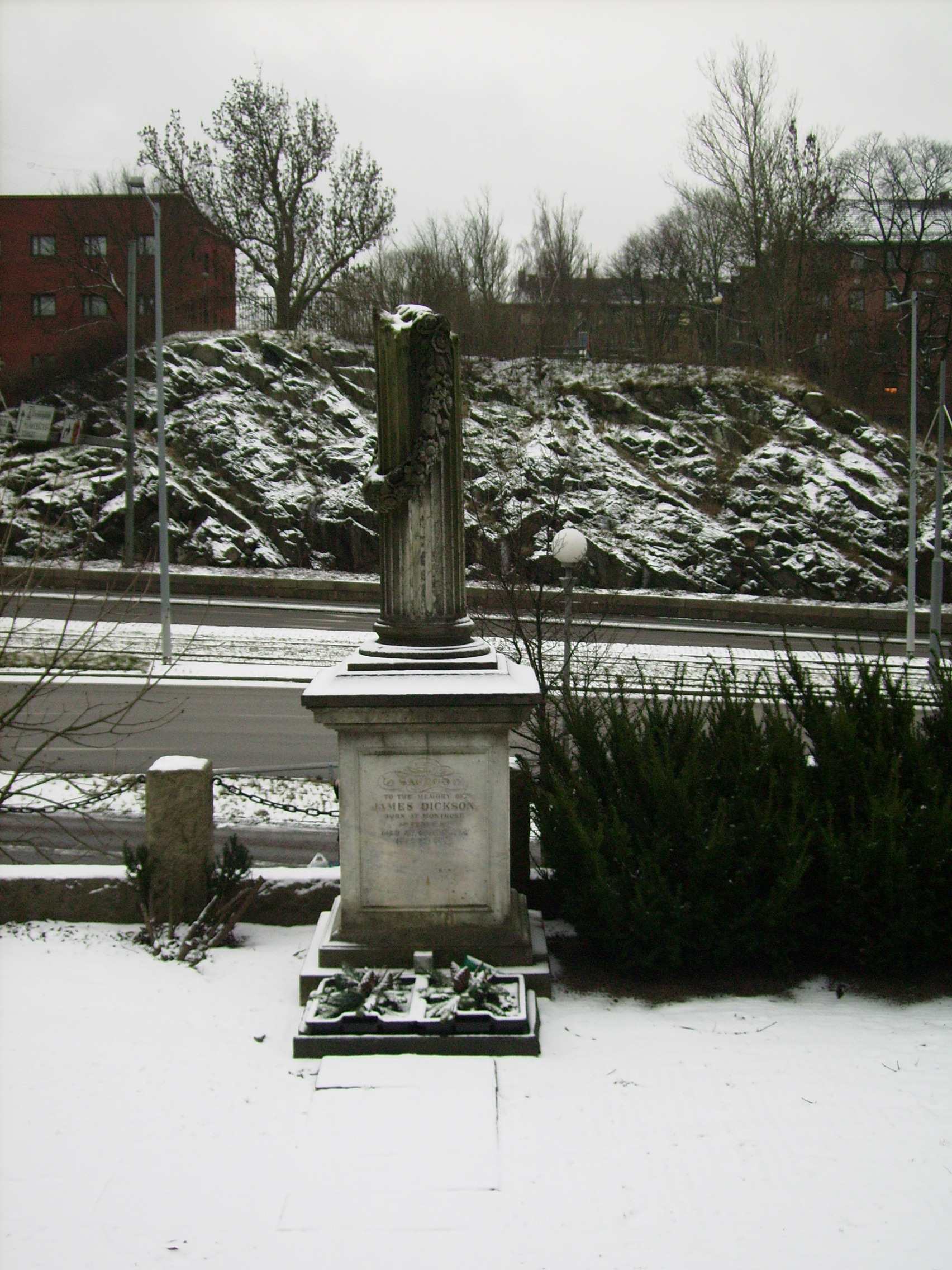 Picture of James Dickson the elders grave in Gothenburg.